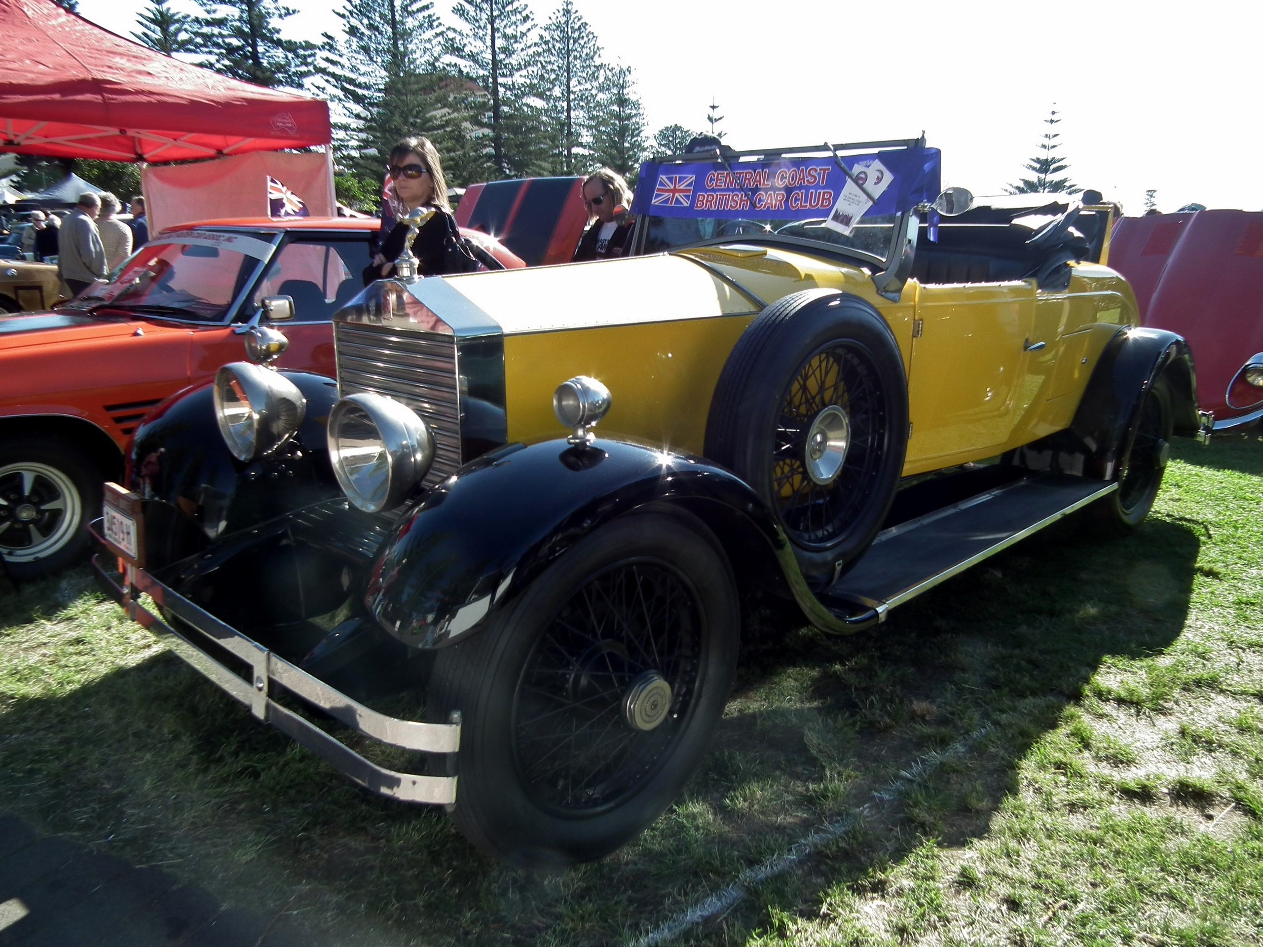 1926 Rolls Royce 20hp roadster. Taken at the National Motoring Heritage Day display at Memorial Park, The Entrance, New South Wales.